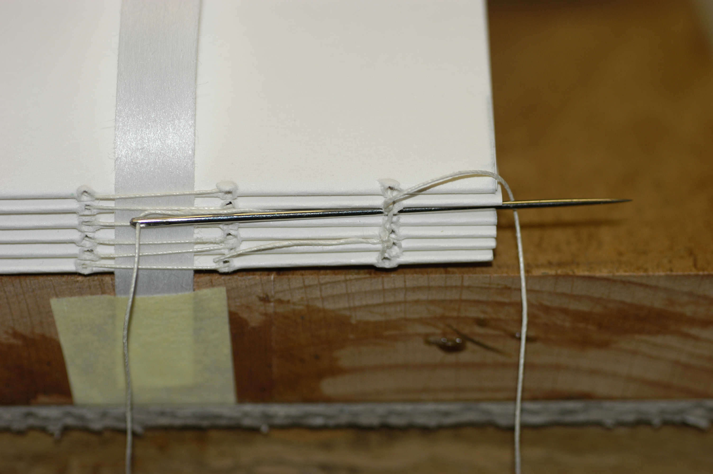 Tieing a layer (binding a book)